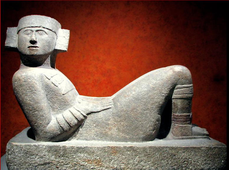 An extremely well preserved Mayan Chac Mool statue now in the Museo Nacional de Antropología of México City. The name 'Chac Mool' translates as "Large Red Jaguar" or "thundering paw" in Mayan. Original caption by the photographer: Chac-Mool is the name given by Augustus Le Plongeon to a type of Pre-Columbian Mesoamerican stone sculpture that depicts a human figure in a position of reclining with the head up and turned to one side, holding a tray over the stomach. The meaning of the position or the statue itself remains unknown. The real name for these type of sculptures is unknown. The name "Chaac Mool" was translated from the Maya and means "Large Red Jaguar" (or "thundering paw"?) It is possible that Chac Mool serve as a human sacrifice stone.